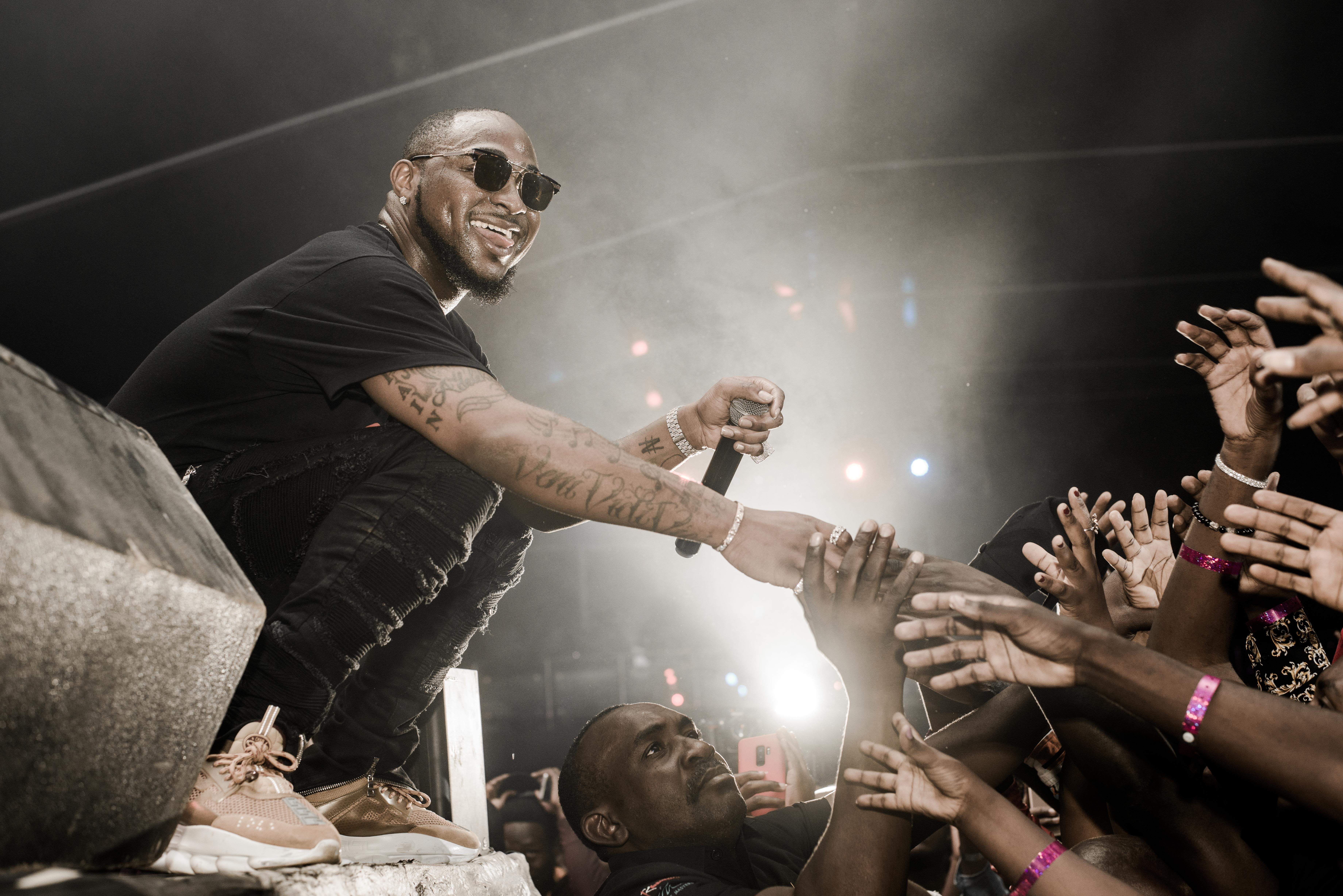 This is an image with the theme "Play" from: Tanzania